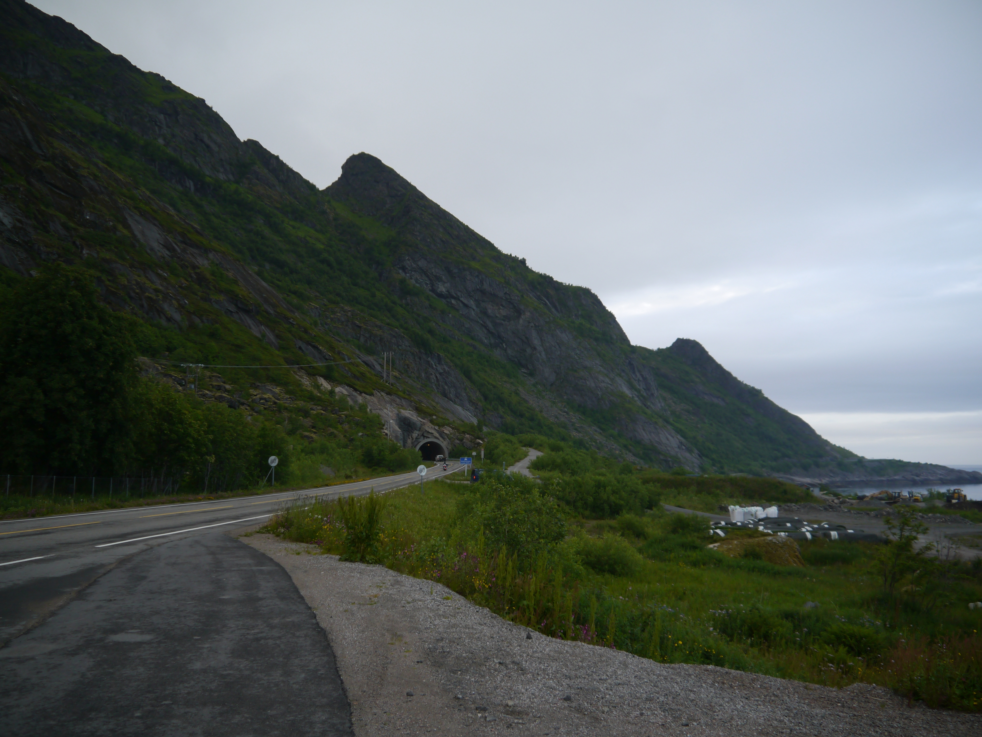 underway on the Lofoten, Province Nordland, Northern Norway